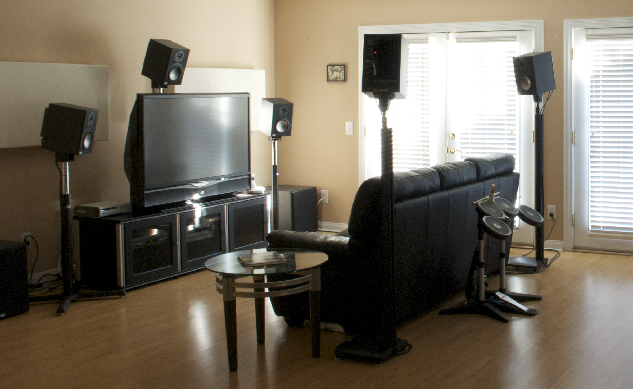 A home cinema in the late aughts.